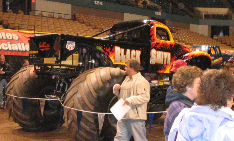 Blacksmith at the 2005 Worcester Monster Jam, taken by Arenacale 19:19, 21 June 2006 (UTC)